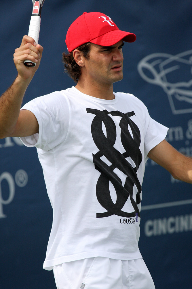 Roger Federer at the 2008 Western & Southern Financial Group Masters Mason, Ohio